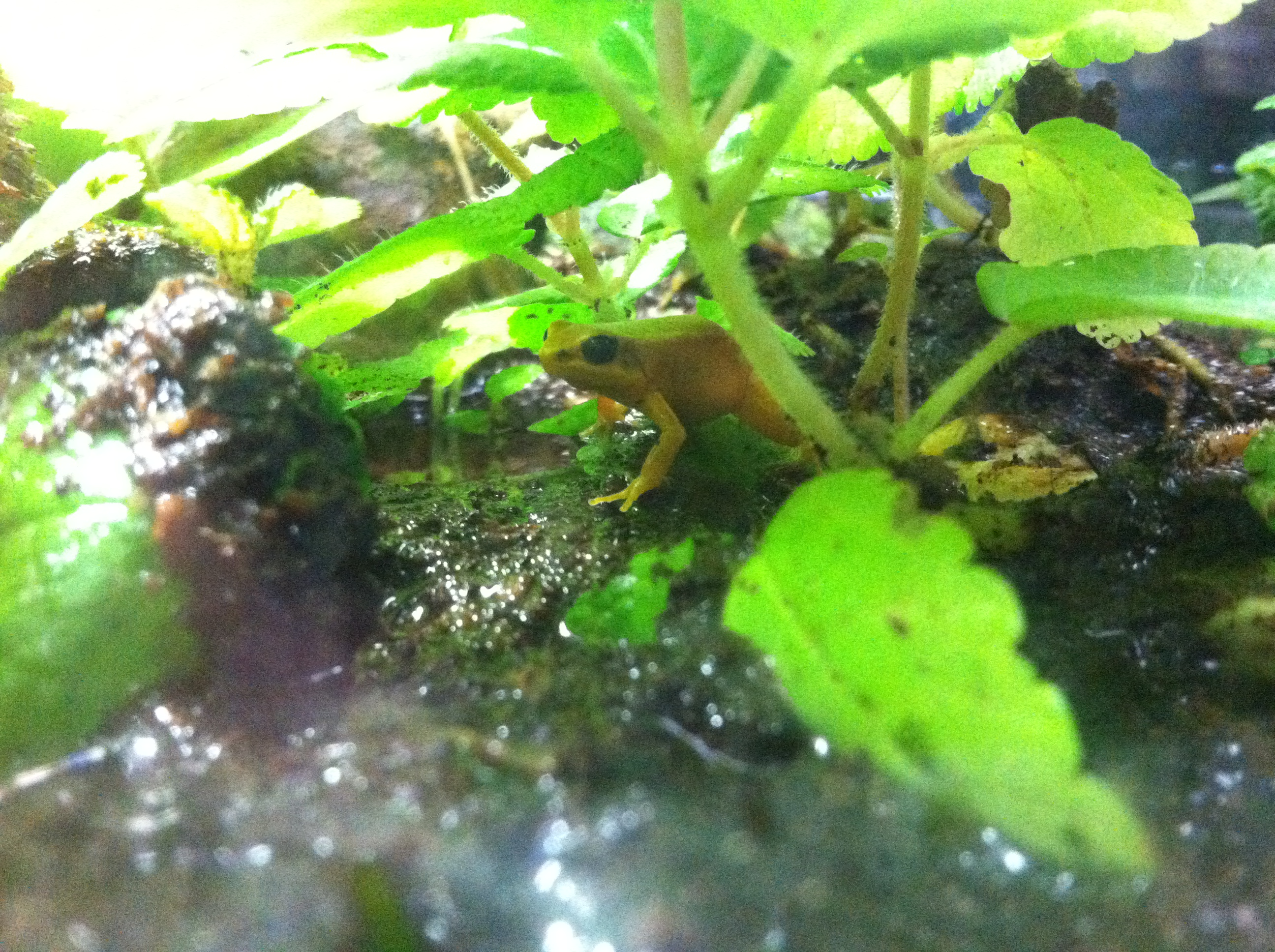 Golden form on display at the Smithsonian National Zoological Park, Washington, DC